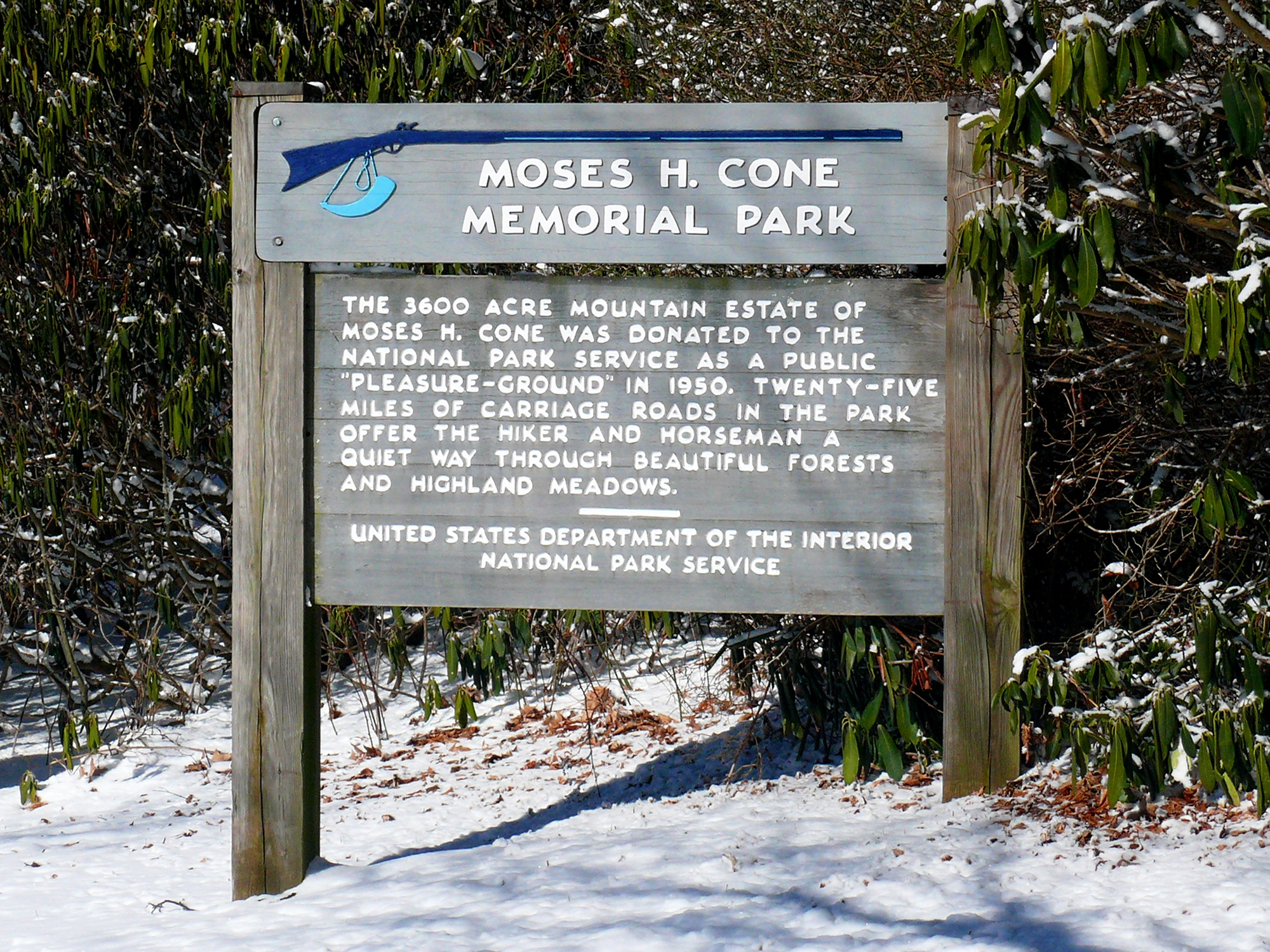 Informational sign at Moses H. Cone Memorial Park, near the town of Blowing Rock on the Blue Ridge Parkway. Photo taken with a Panasonic Lumix DMC-FZ50 in Watauga County, NC, USA. Cropping and post-processing performed with The GIMP.